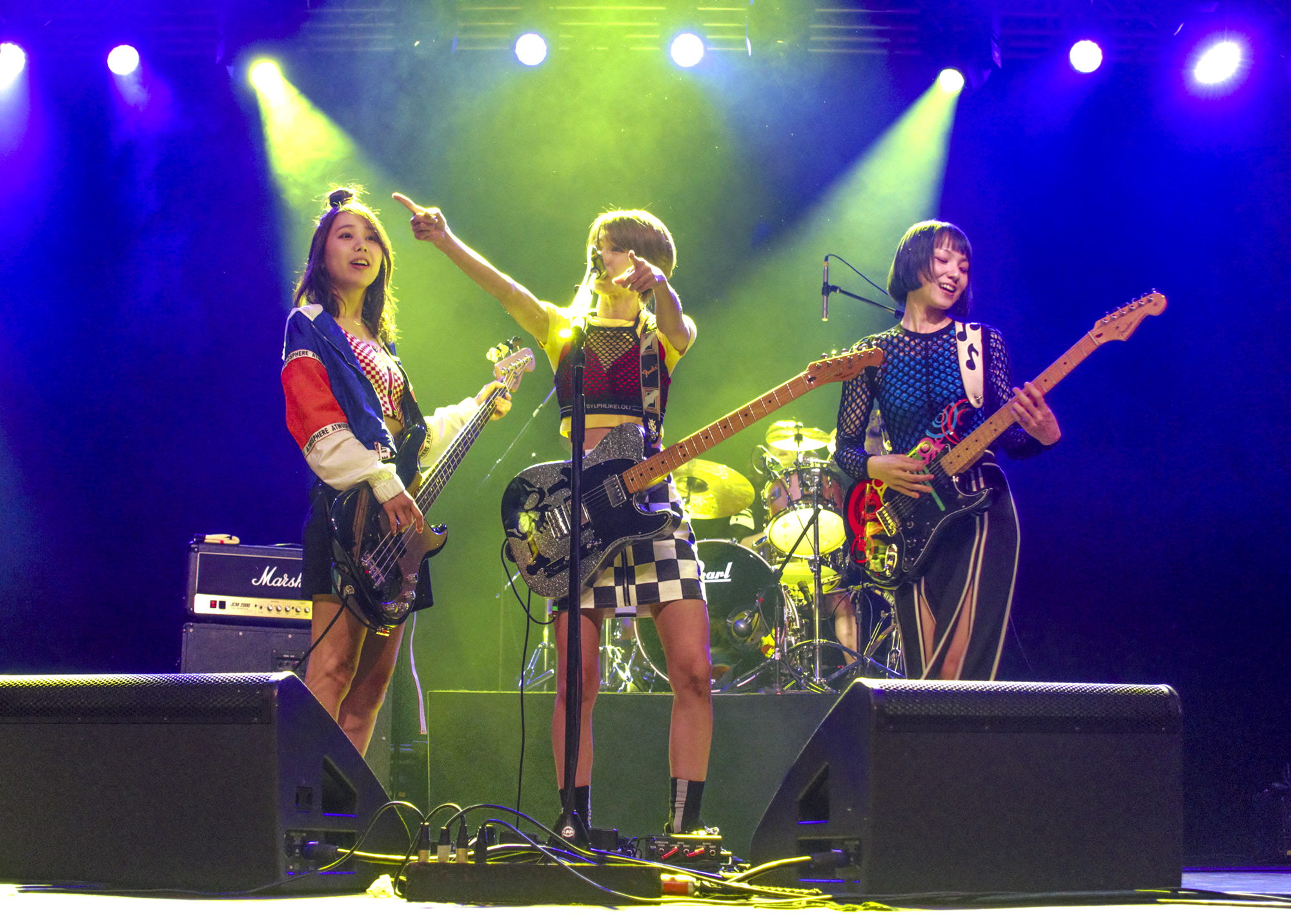 Japanese pop-rock band SCANDAL at House of Blues Anaheim in Anaheim, CA, USA for 『SCANDAL from Japan US & Mexico Tour 2018 「Special Thanks」』. September 9, 2018.